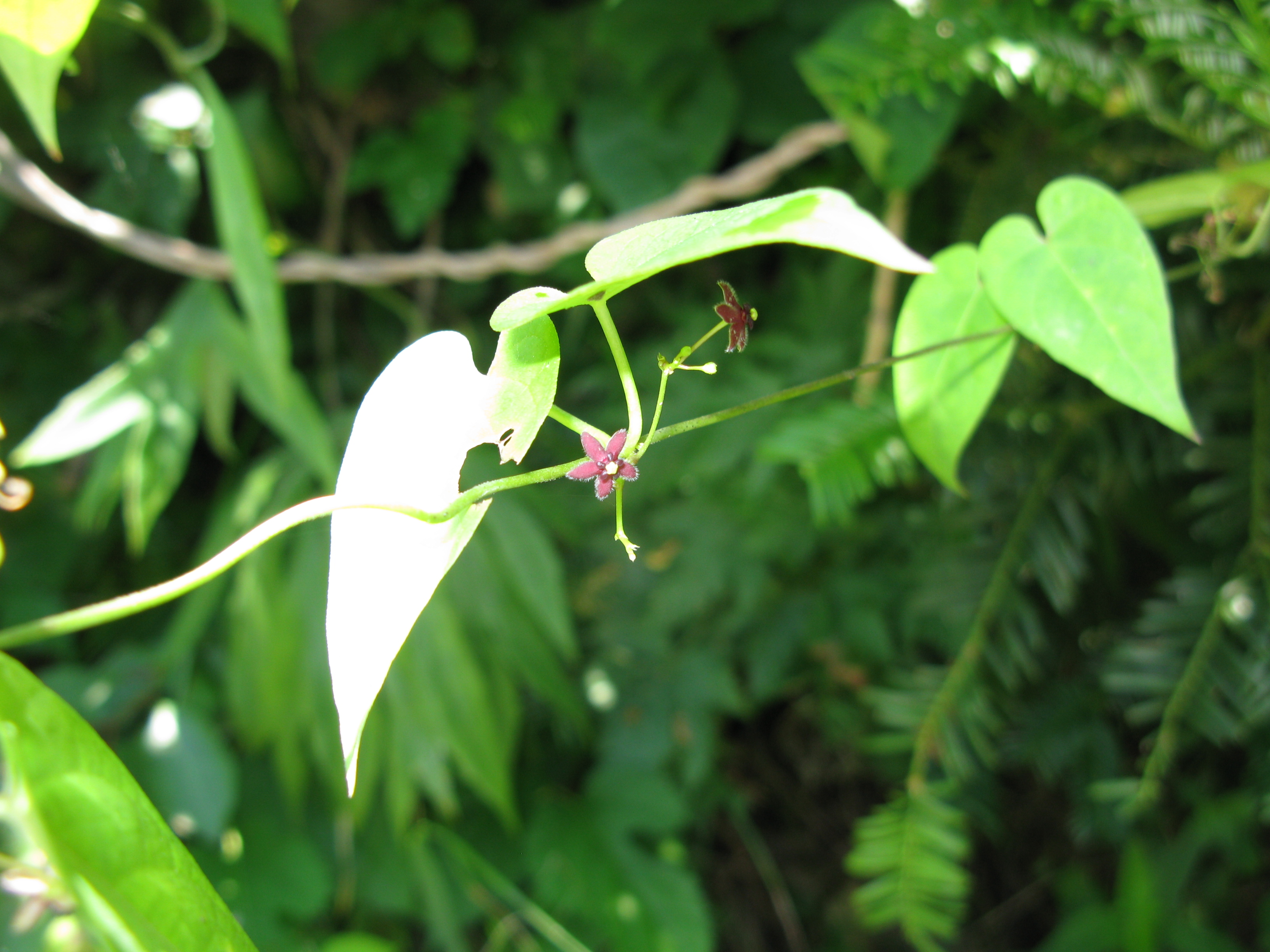 Tylophora aristolochioides, Aizu area, Fukushima pref., Japan